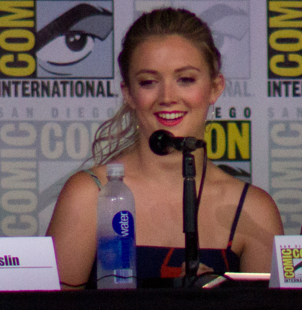 Abigail Breslin, Billie Lourd, Keke Palmer and Lea Michele in the Scream Queens panel at SDCC 2016